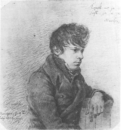 Johann Nepomuk Muxel, Portrait made by Ludwig Emil Grimm (1790 - 1863), German painter. Lead pencil drawing on brown paper. Staatliche Grafische Sammlung, Munich, Germany